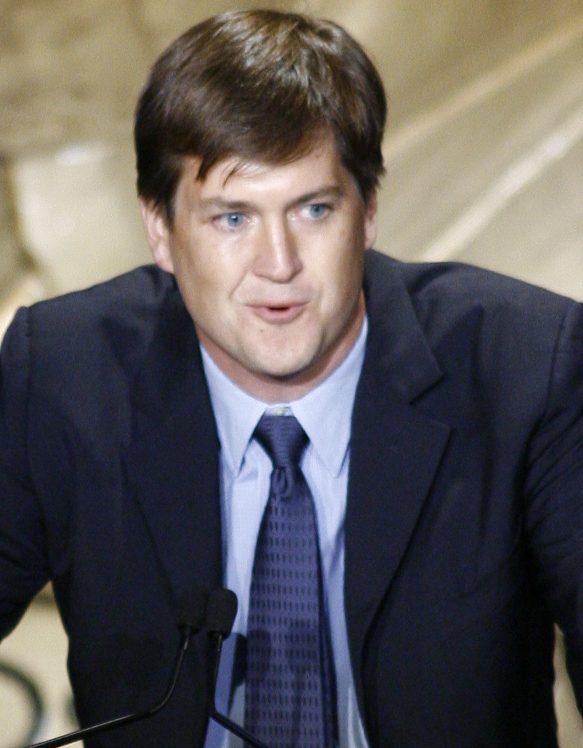 Bill Lawrence, 66th Annual Peabody Awards Luncheon, Waldorf=Astoria Hotel New York, NY USA June 4th, 2007